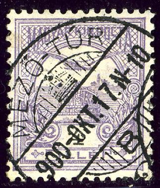 Kingdom of Hungary 4 fillér mauve issue 1900 stamp (SG105), cancelled at MEZÖ-TUR (central Hungary) in 1900.